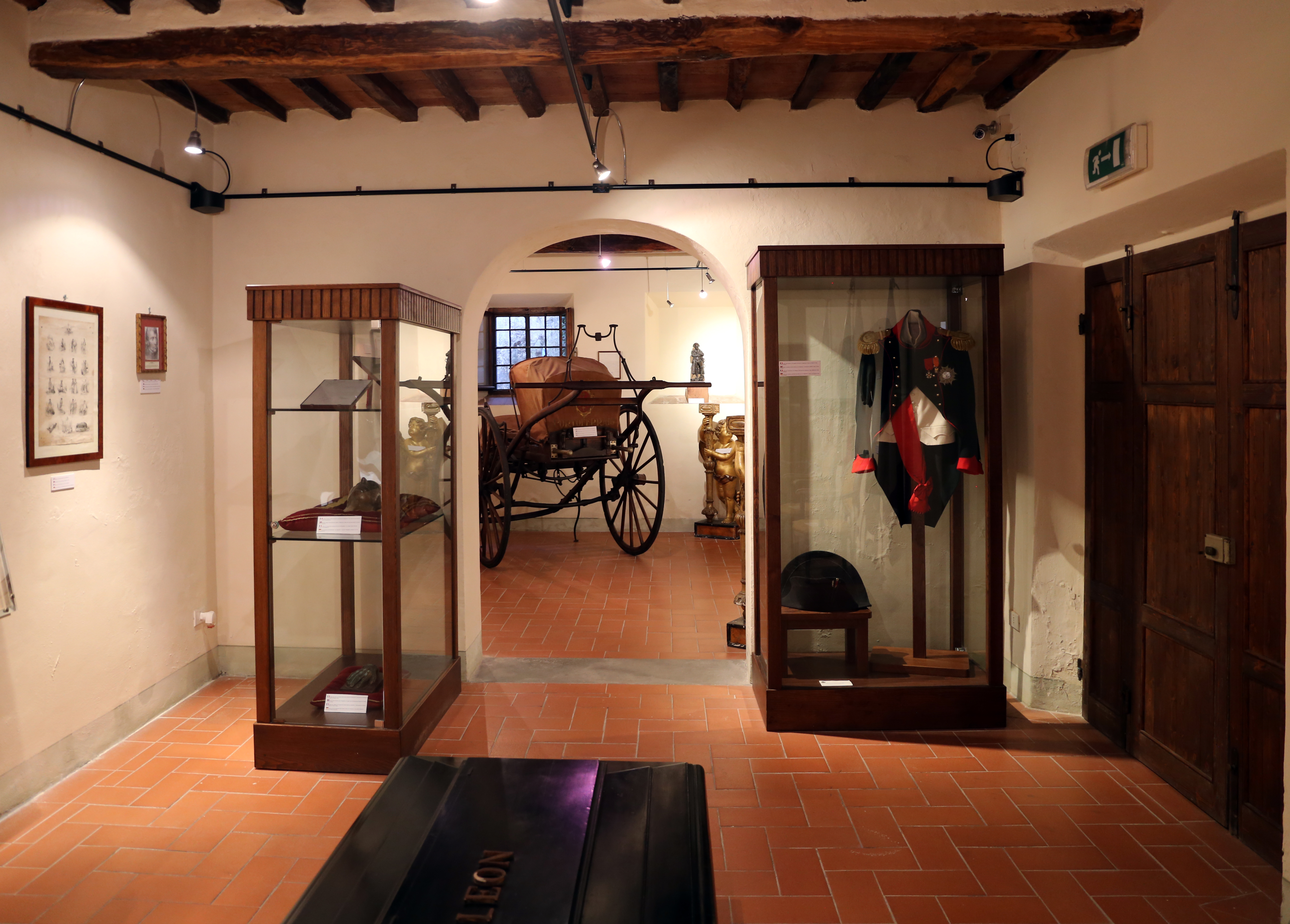 Misericordia museum (Portoferraio)